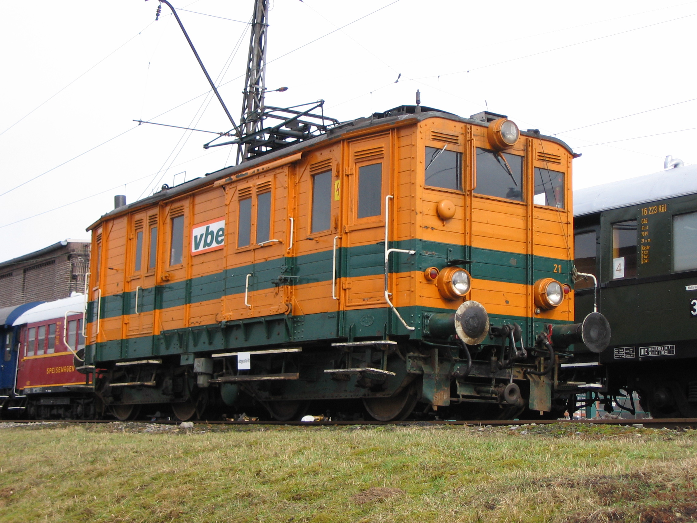 Historical locomotive of Extertal railway in North Rhine-Westphalia, Germany. The depictured E21 locomotive was built 1927 by AEG and Norddeutsche Waggonfabrik and was operated until 2001. Both the E21 and its twin model E22 were promoted to cultural heritage monuments by the state in 1986.